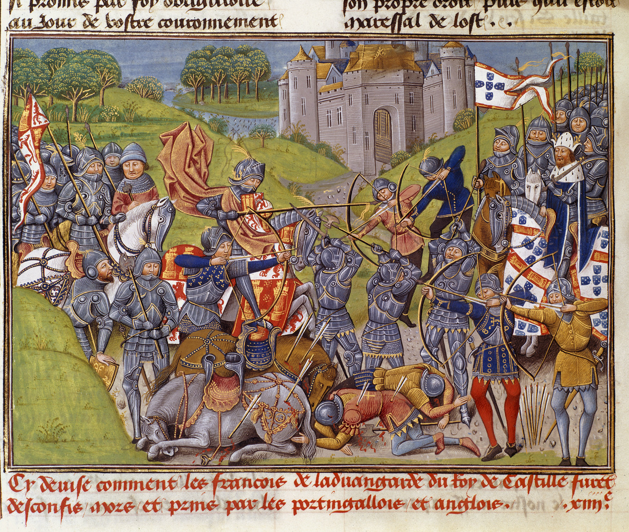 The Portuguese and English defeat the French vanguard of the King of Castille